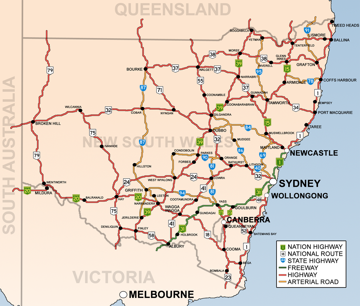 Map of New South Wales Highways based on maps online, Atlas' and Fikri on Wikipedia.